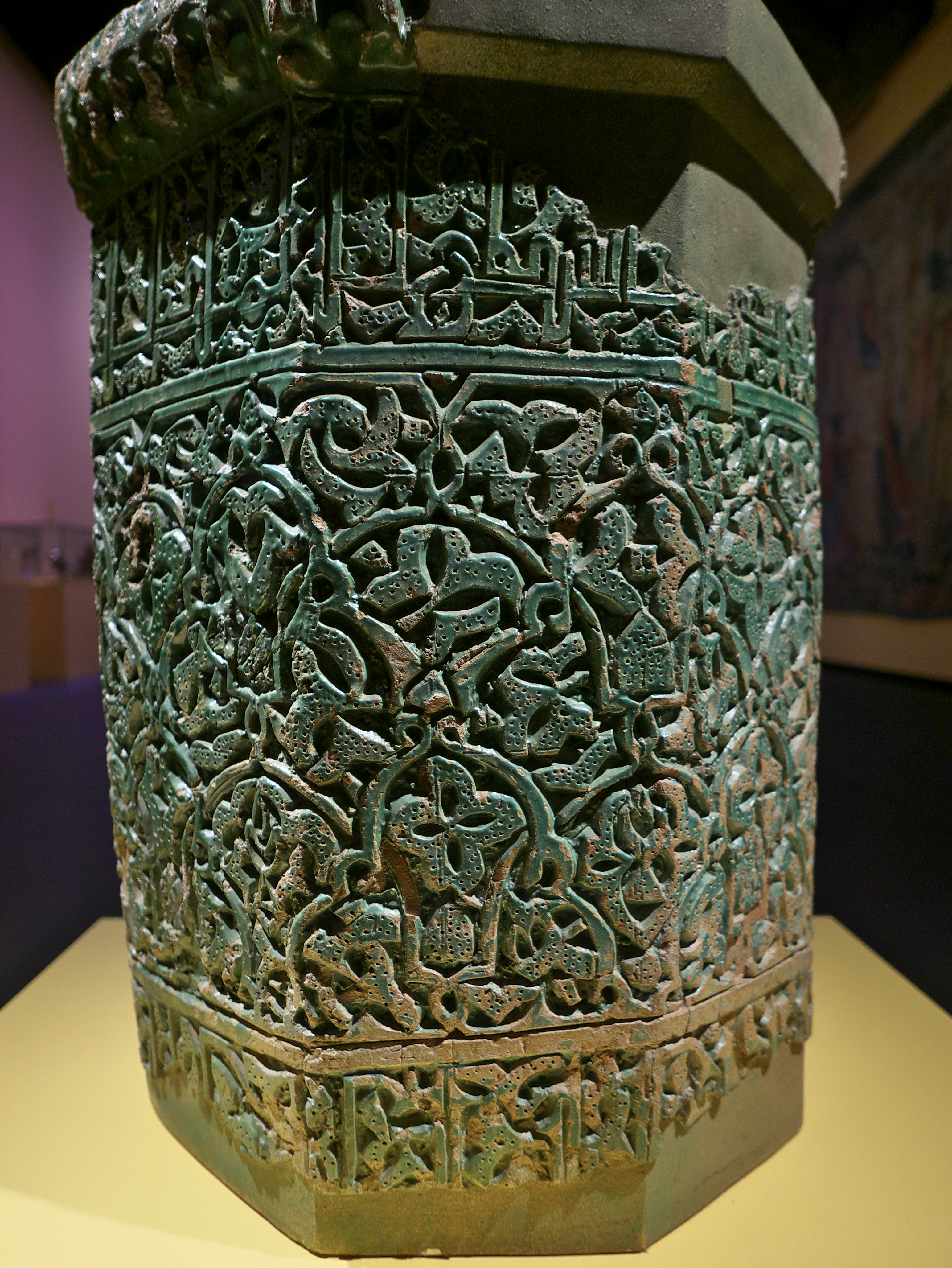 RIM OF CISTERN. Toledan workshop. 14th century, glazed pottery